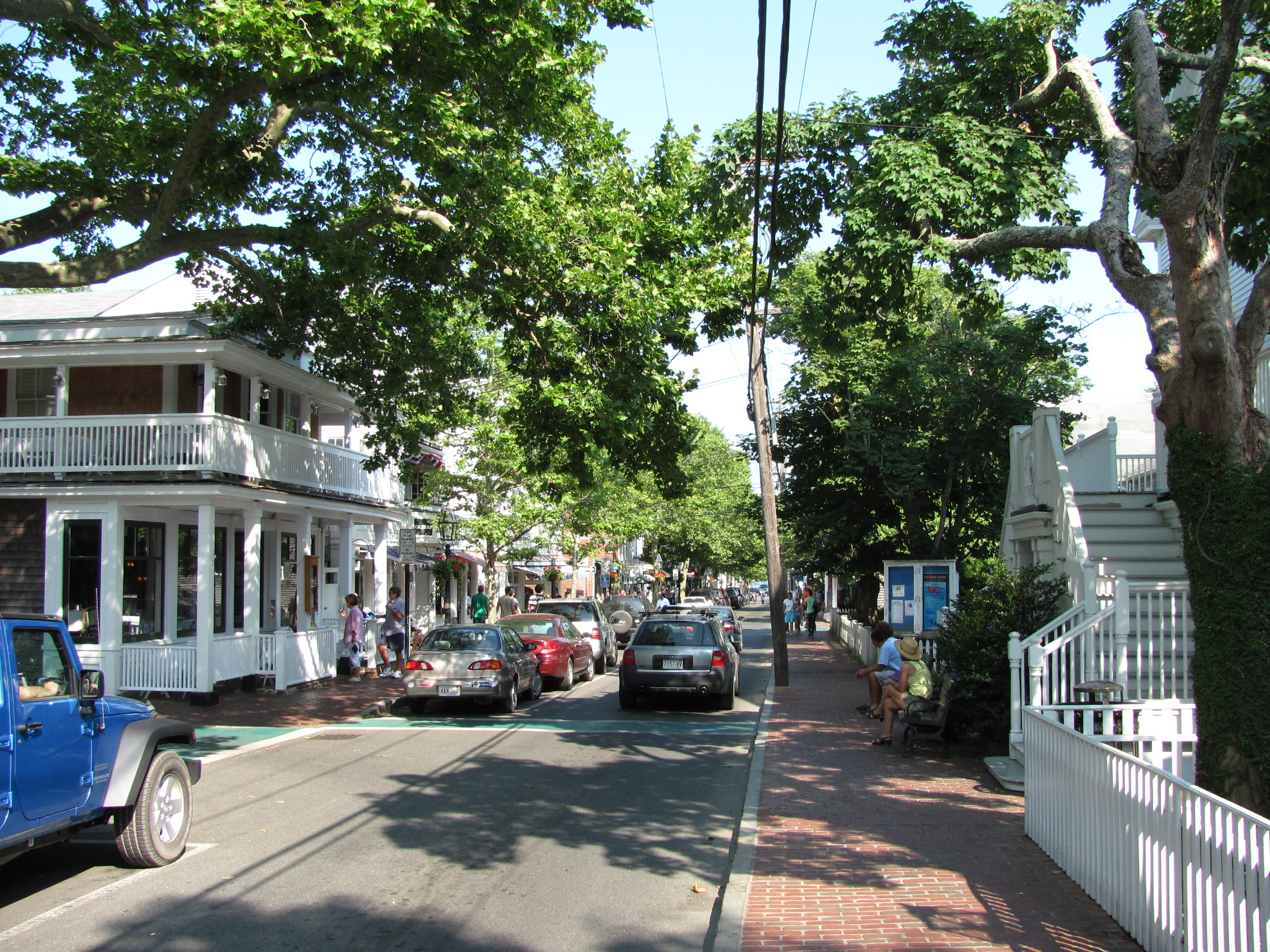 Main Street, Edgartown Massachusetts